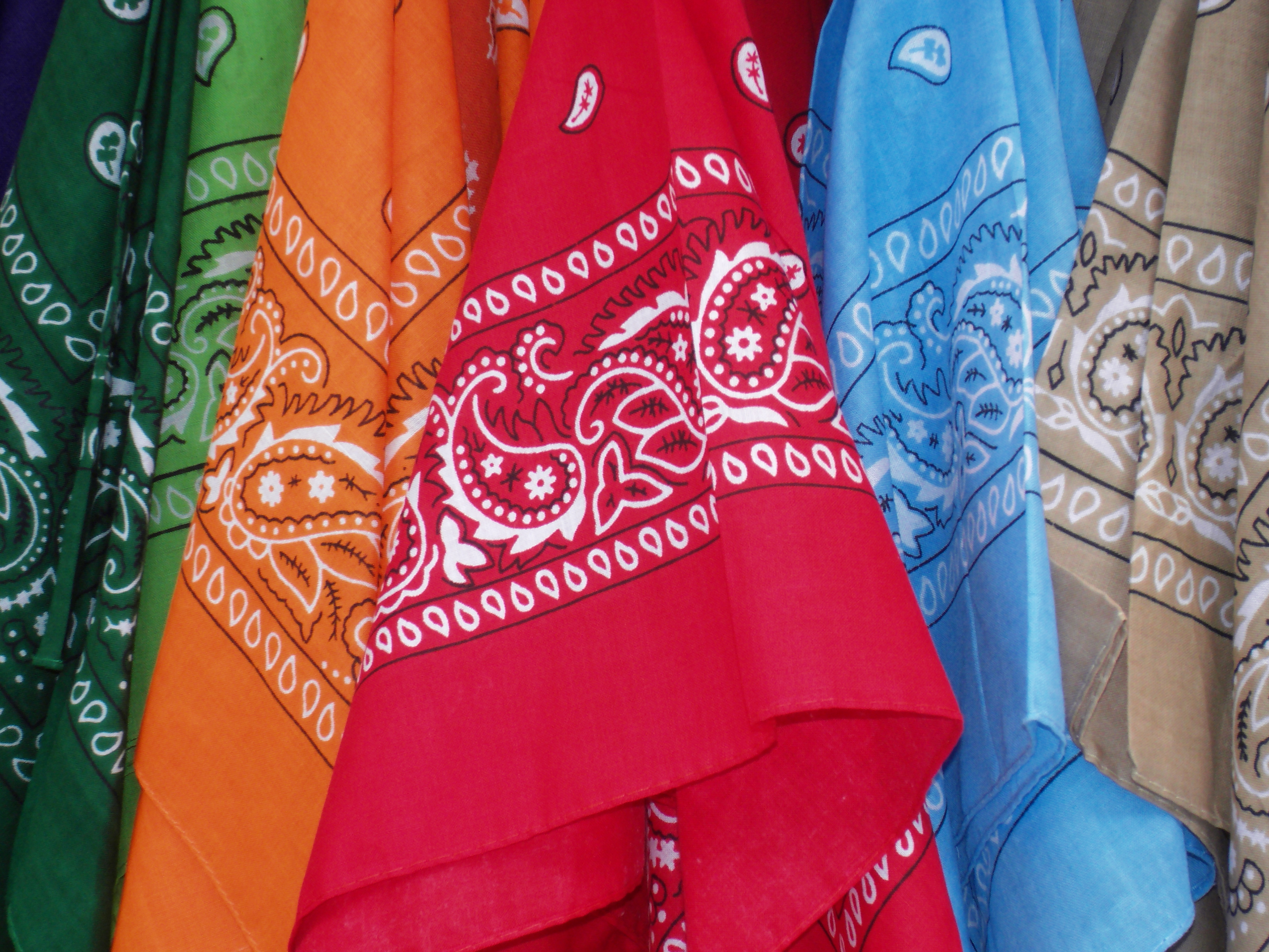 Coloured scarves